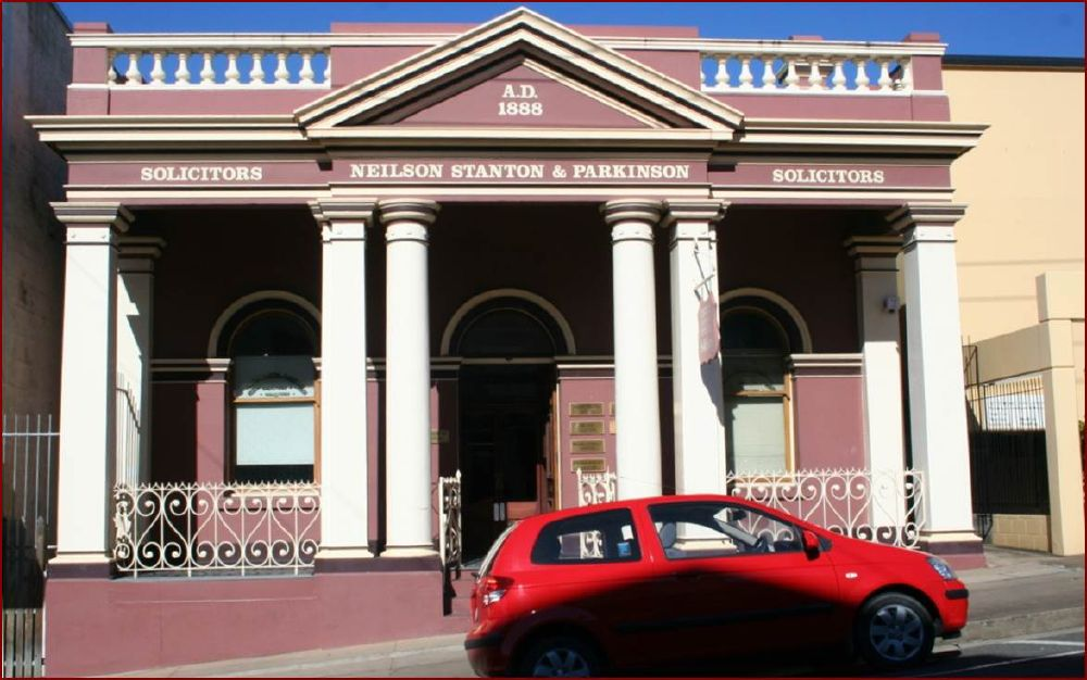 Australian Joint Stock Bank(fmr) - Gympie Stock Exchange (fmr) (2008)